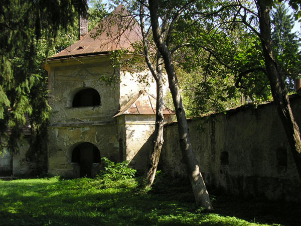 The Teleki-castle in Dolha/Dovhe (Zakarpattia), 2005